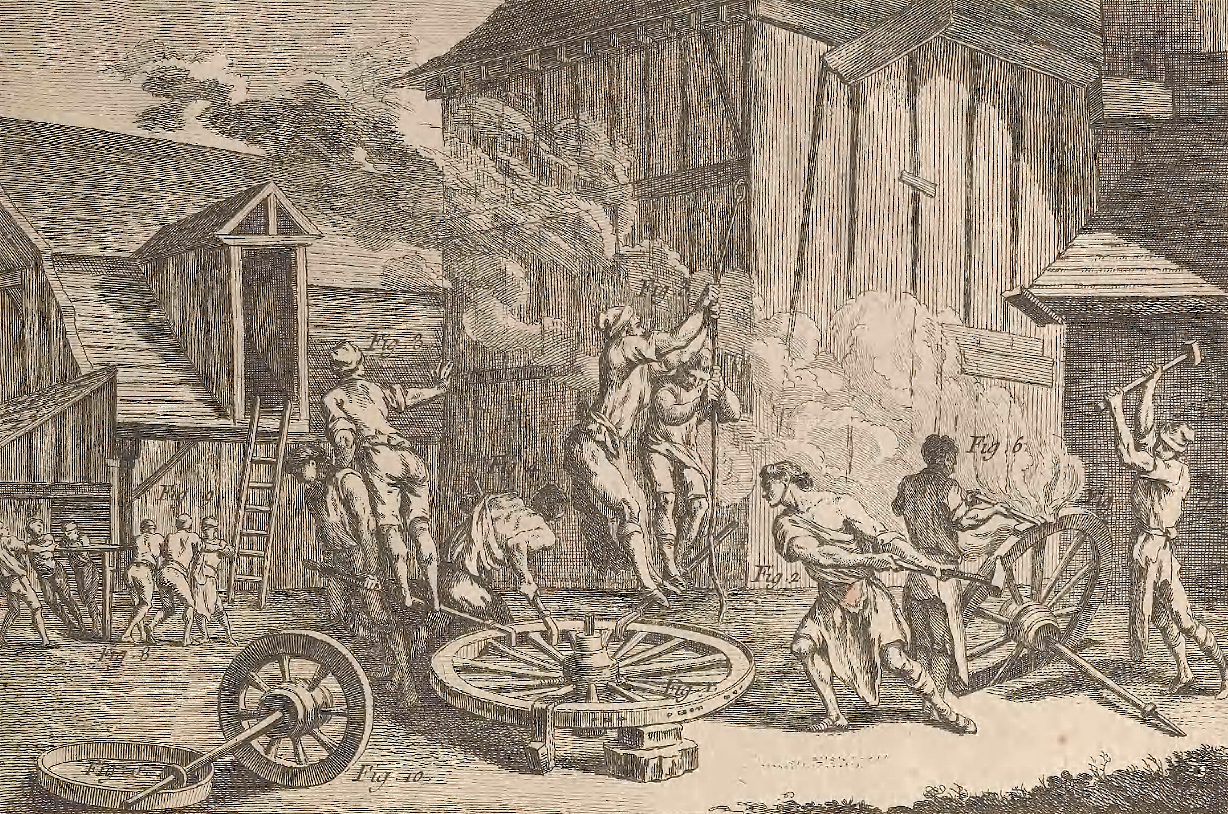 Fig. 1. Wheel being shod with a hoop tyre. 2. Worker who strikes this wheel. 3. Four workers weighing on the sticks. 4. A worker who weighs on the "devil" in the midst of the other four workers. 5. Rear wheel that is being shod with strakes. 6. Worker holding the strake with pincers. 7. Worker hitting the nails that attach the strake to the felloes.. 8. Spindle. 9. Six workers tapping an axle nut. 10. Front wheel to be shod with a hoop tyre. 11. Tyre for this wheel.